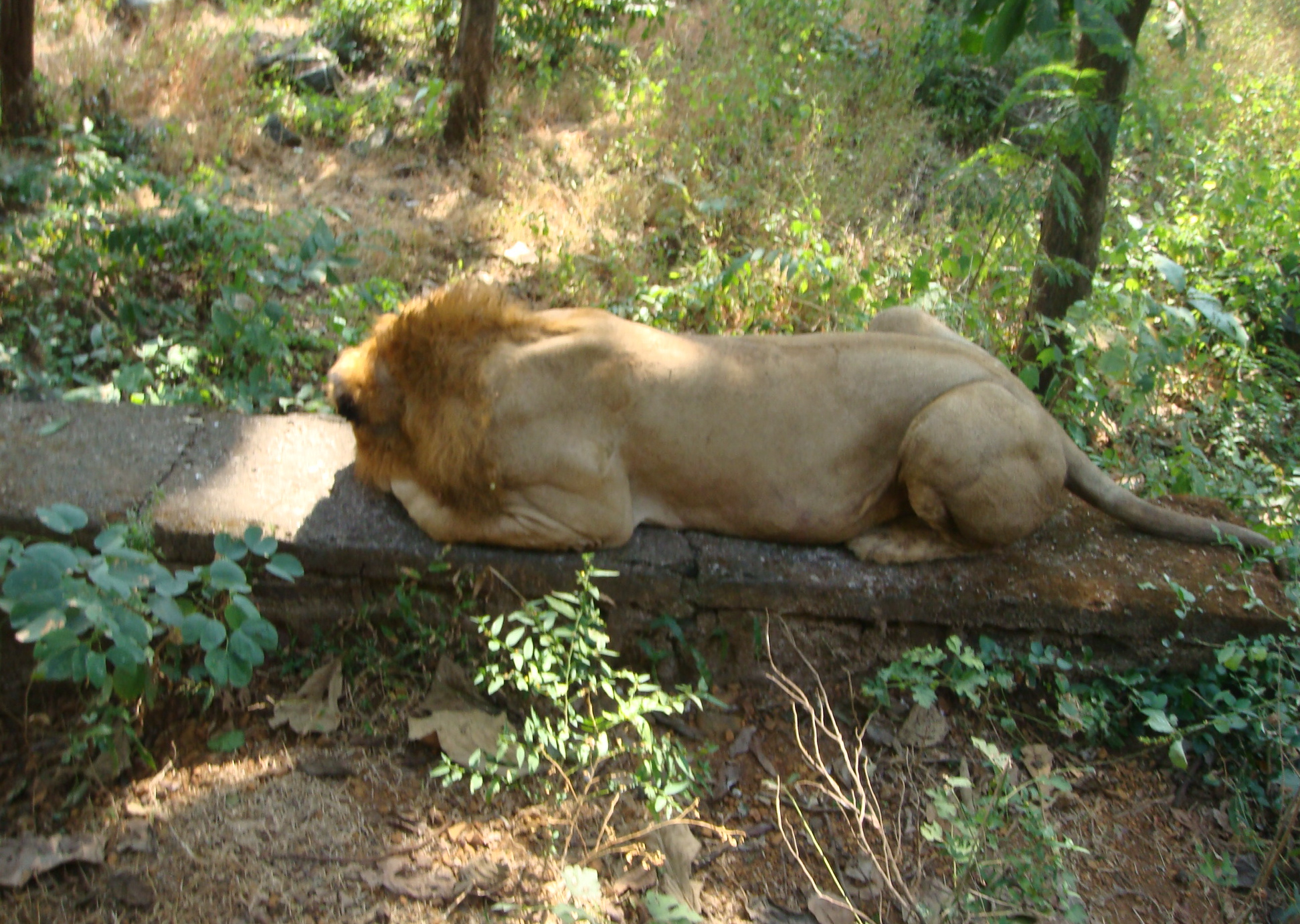 Lion sleeping at Sanjay Gandhi National Park Lion Safari